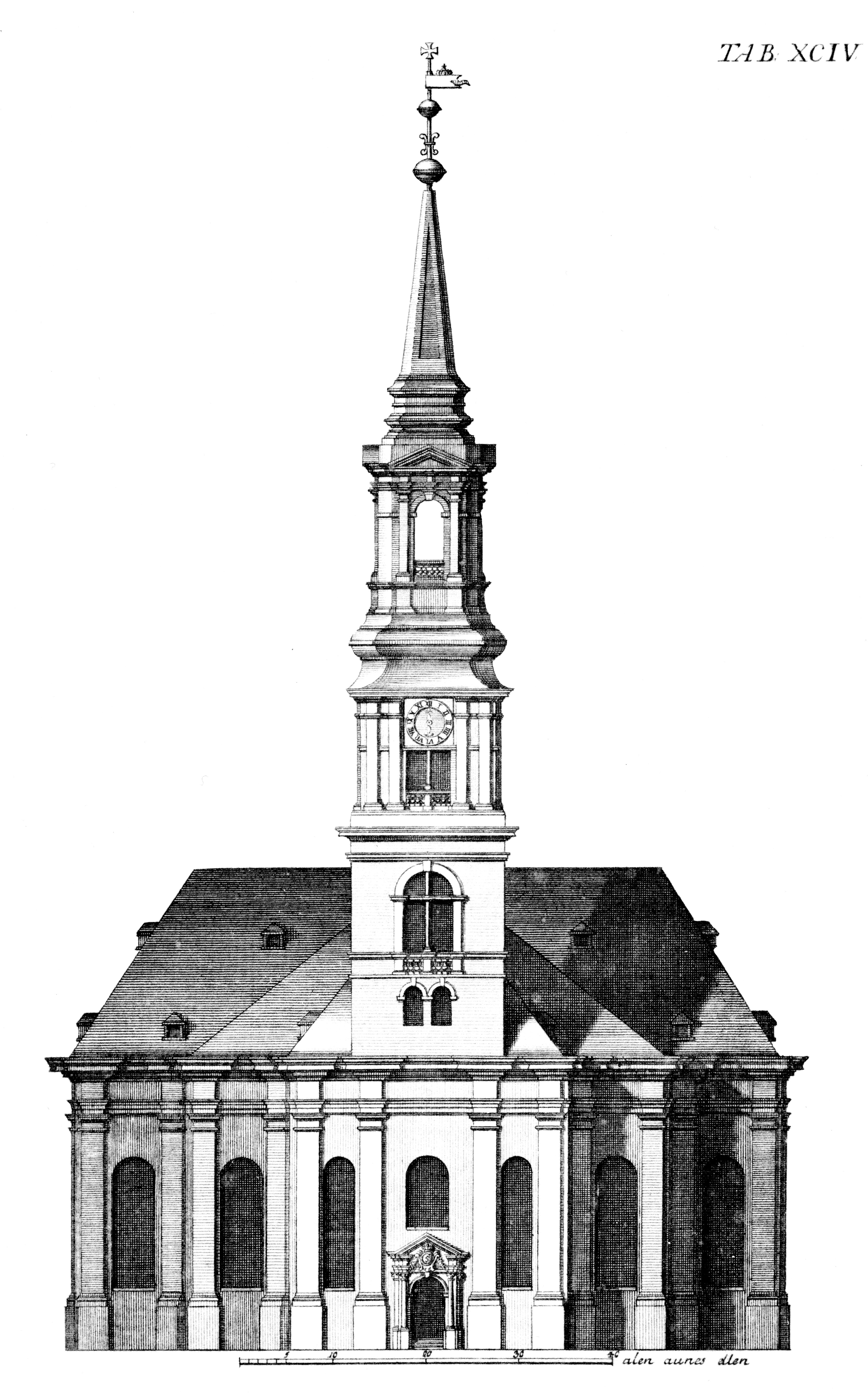 From Hafnia Hodierna by Laurids de Thurah, 1748. Drawings of buildings in Copenhagen. Tab.XCIV. Vor Frelser Kirke. Originally planned spire.